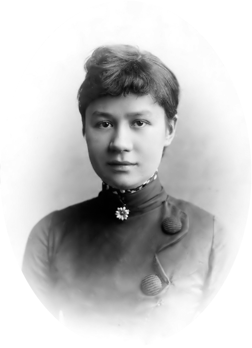 Jo van Gogh-Bonger Amsterdam April 1889